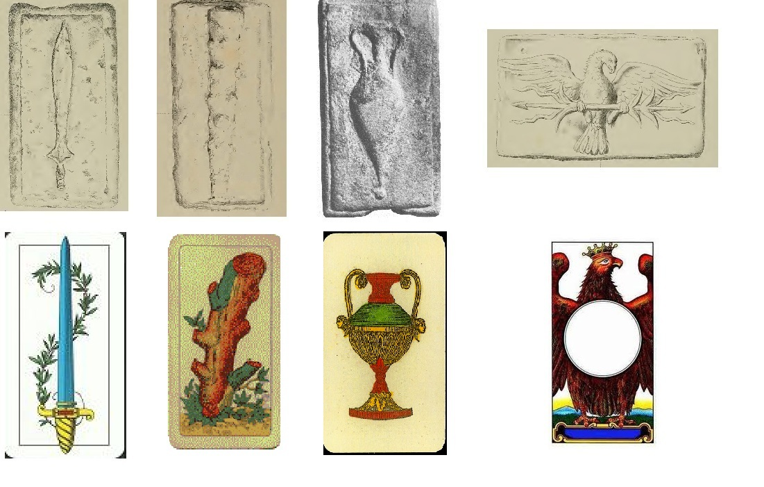 axes modern and aes signatum